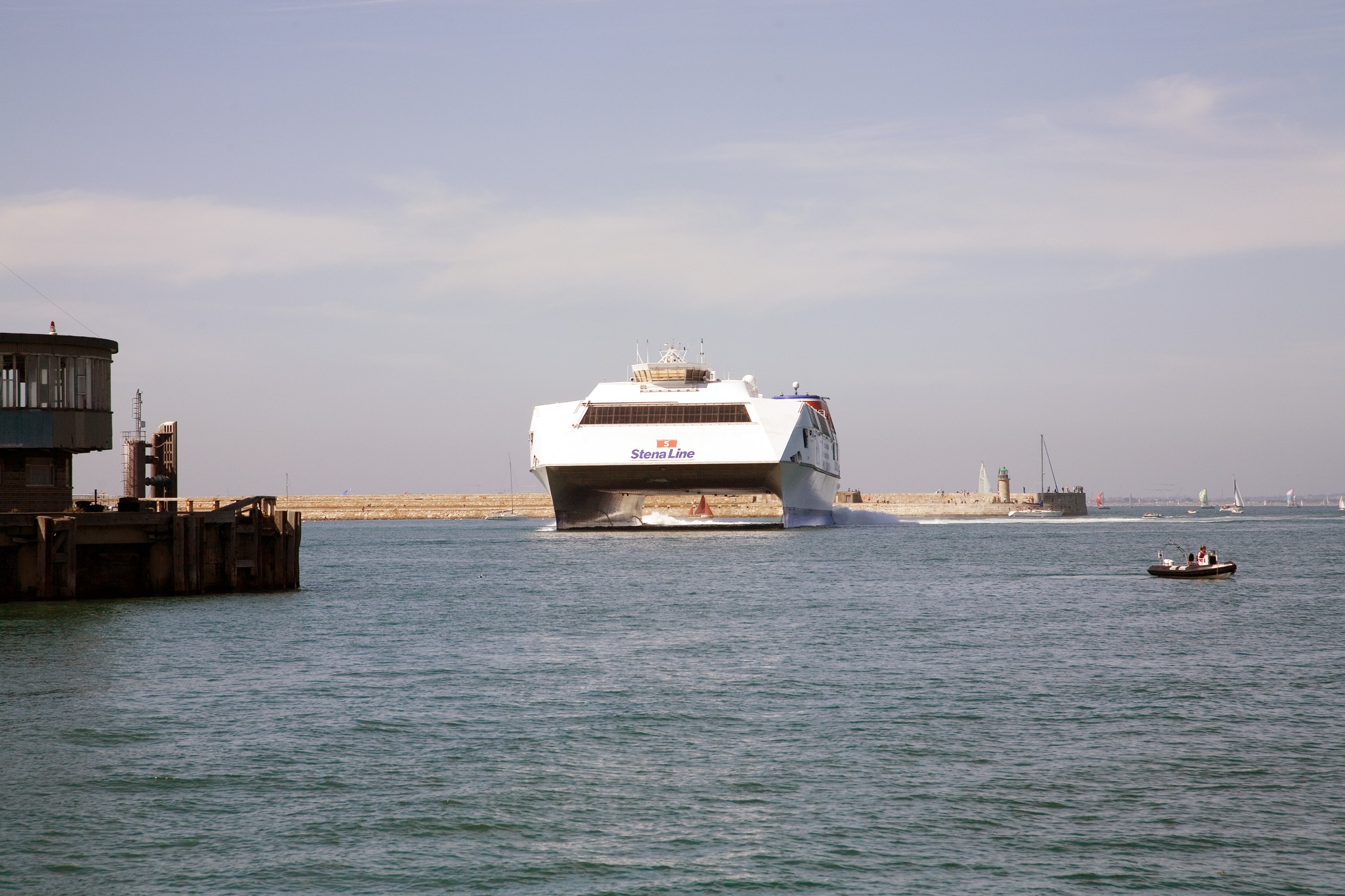 Stena Explorer Operates on the Holyhead-Dun Laoghaire route. Technical facts: Gross tonnage: 19 638 t LOA: 127 m Beam: 40 m Draught: 4.8 m Speed: 40 knots Ship type: HSS 1500 (High-speed Sea Service) Passenger capacity: 1 500 Car capacity: 360 Freight capacity: 900 lane metres Built/last rebuilt: 1996 Shipbuilder: Finnyards, Finland Port of registry: London Flag: British Engines: 2 x GE LM 2500 + 2 x GE LM 1600 gas turbines kW/horsepower: 68 000 kW